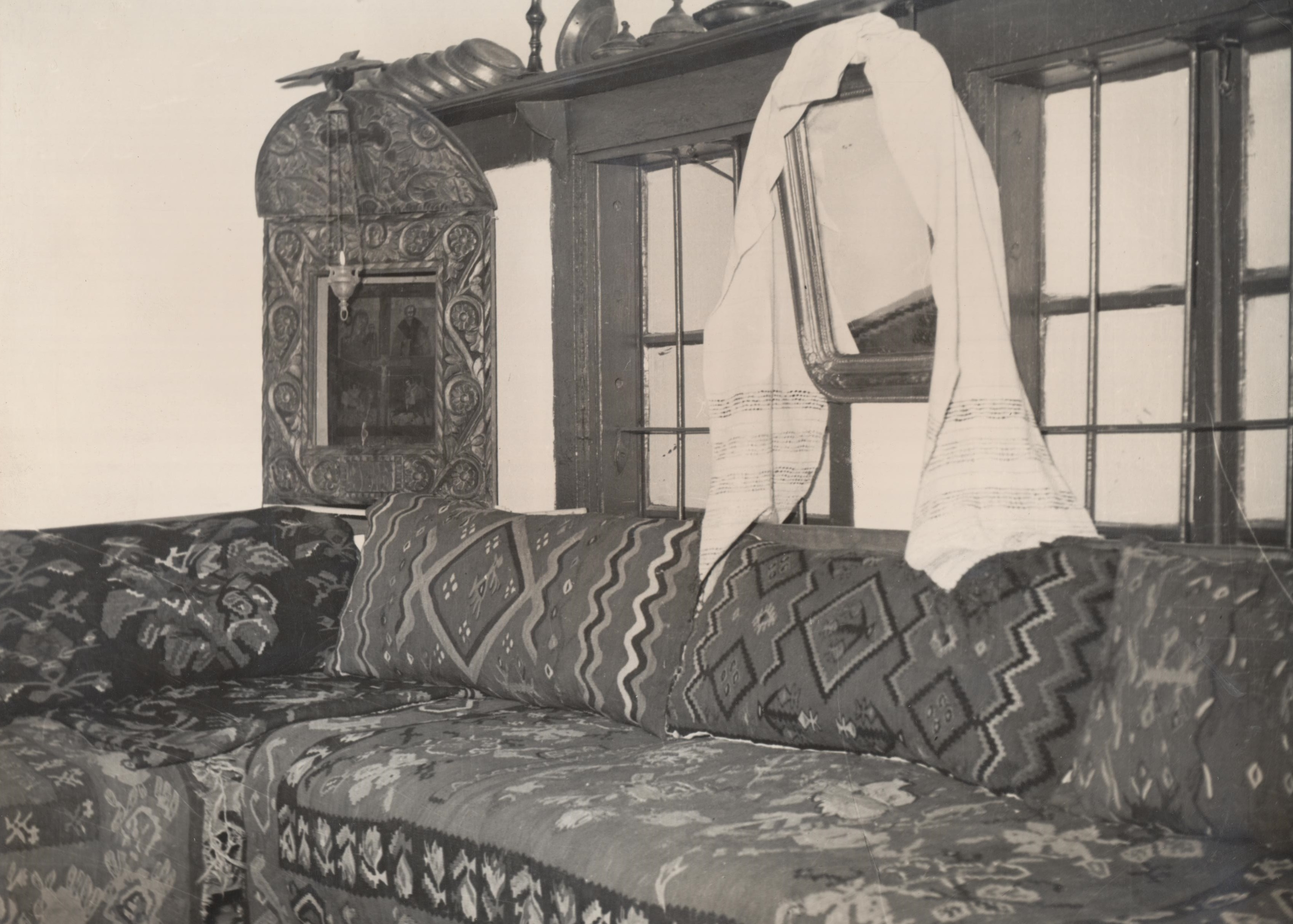 Museum Ponisavlje in Pirot with kilims